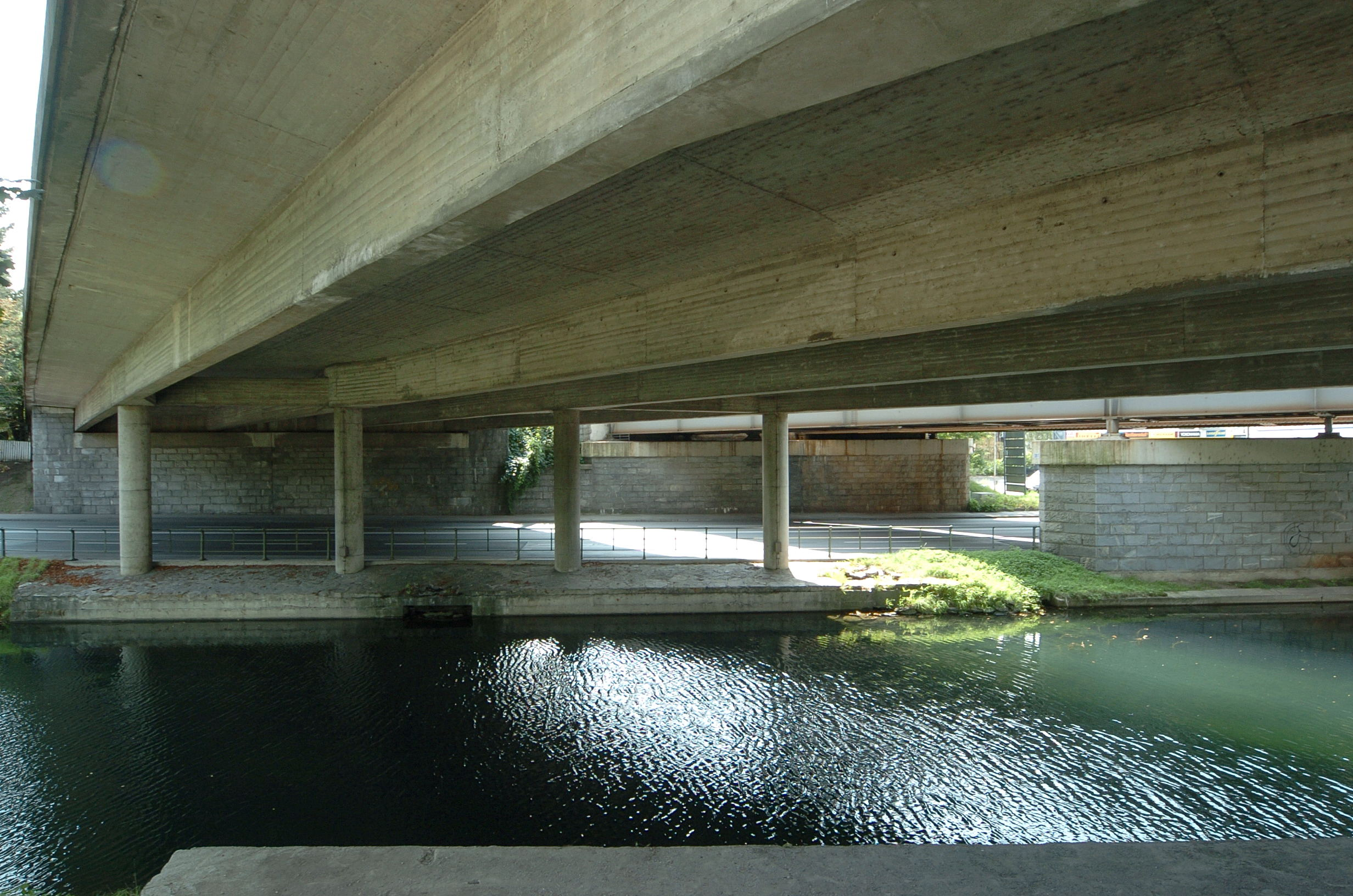 Motorway bridge across the Lendkanal, the artificial outflow from the Lake Woerth in Klagenfurt, Carinthia, Austria